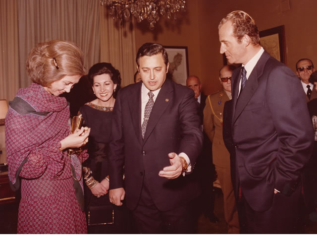 Official reception to the kings of Spain, Granada 1980